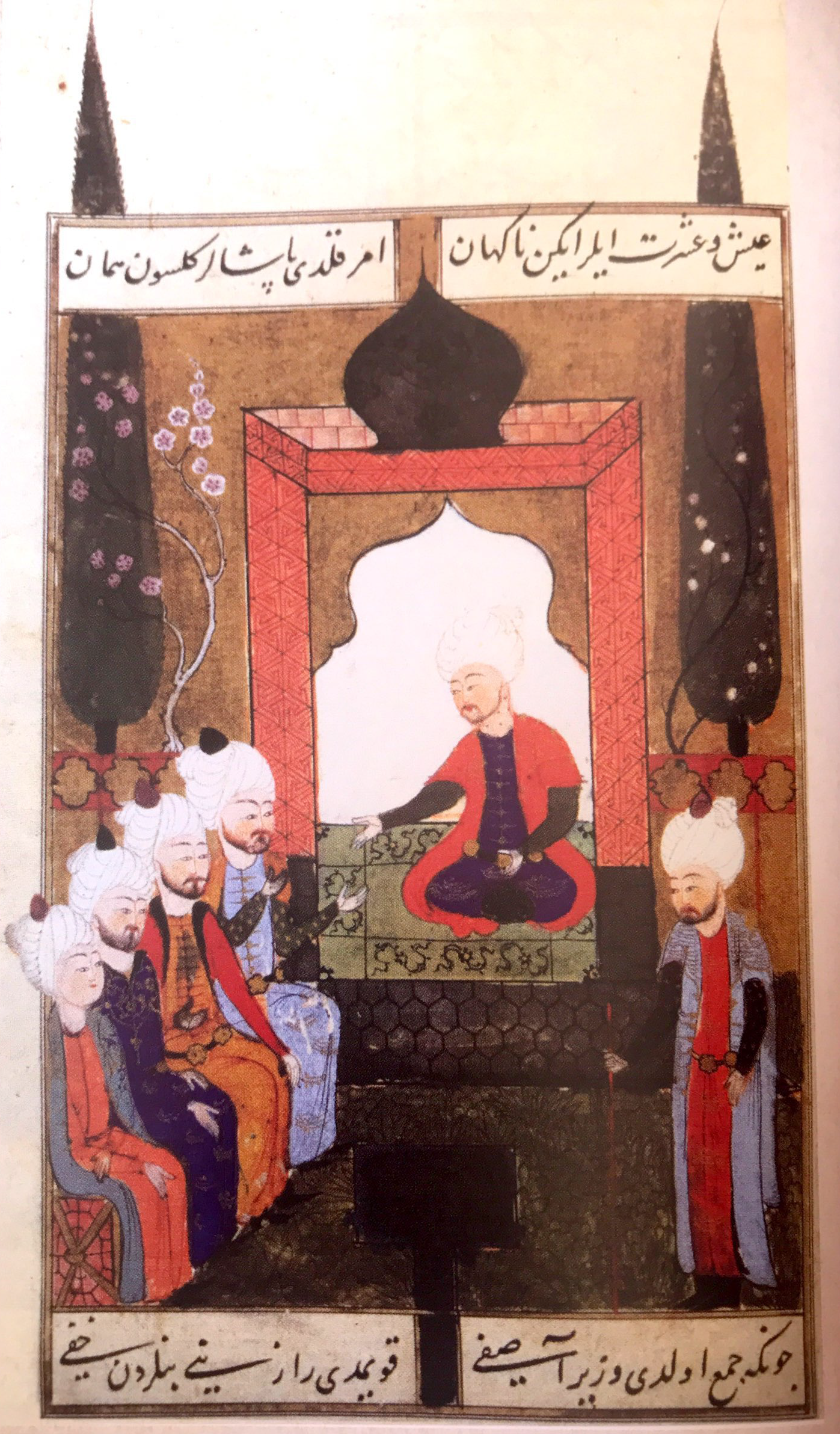 I.Selim ikinci Azerbaycan seferinin divanda tartışıyor (Selimname)